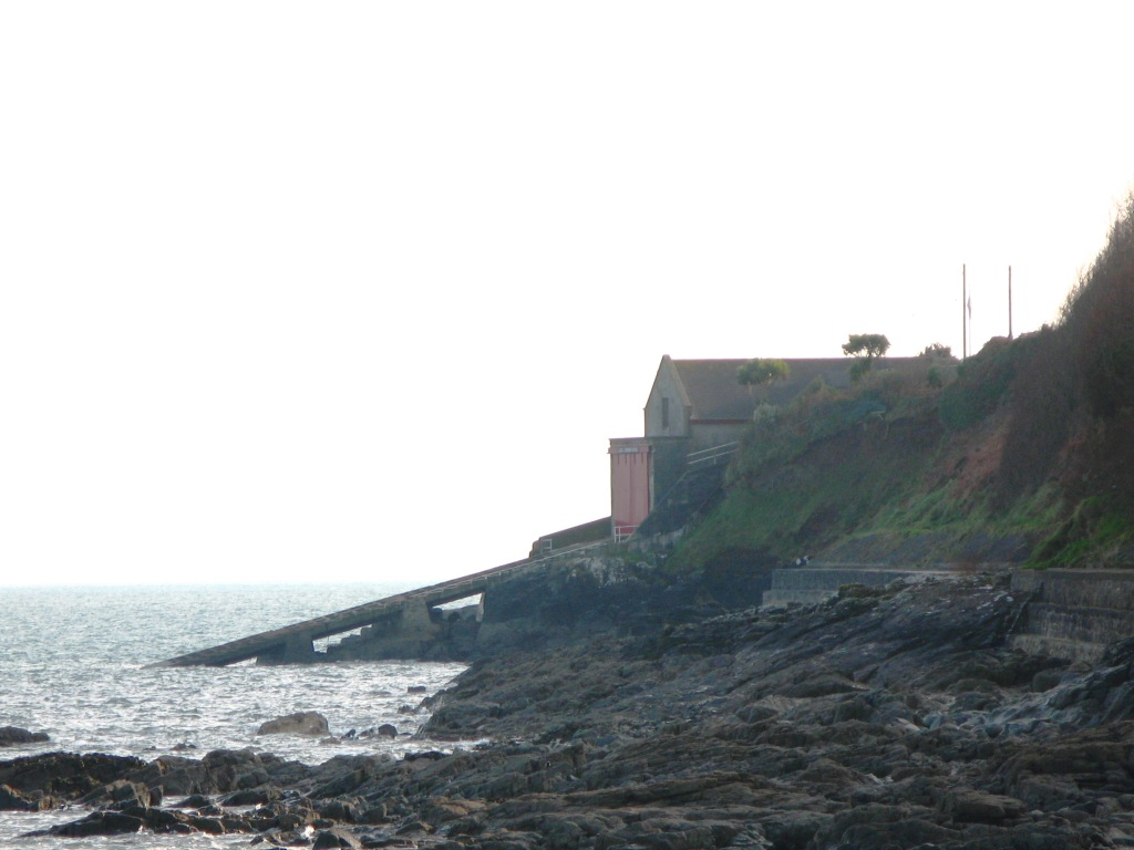 The old lifeboat station and slipway at Penlee Point, Mousehole, Cornwall. Viewed from the north.